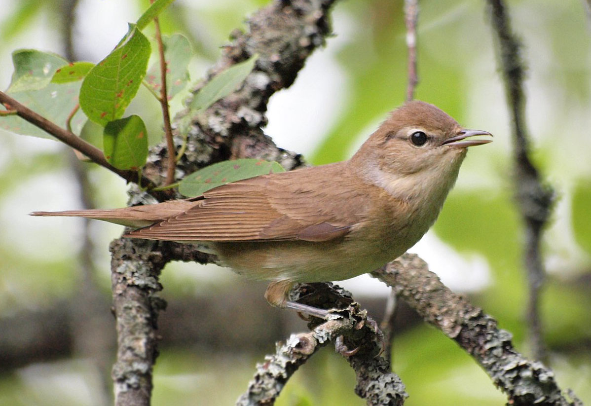 Sylvia borin (Garden Warbler in Tybble, Örebro County)